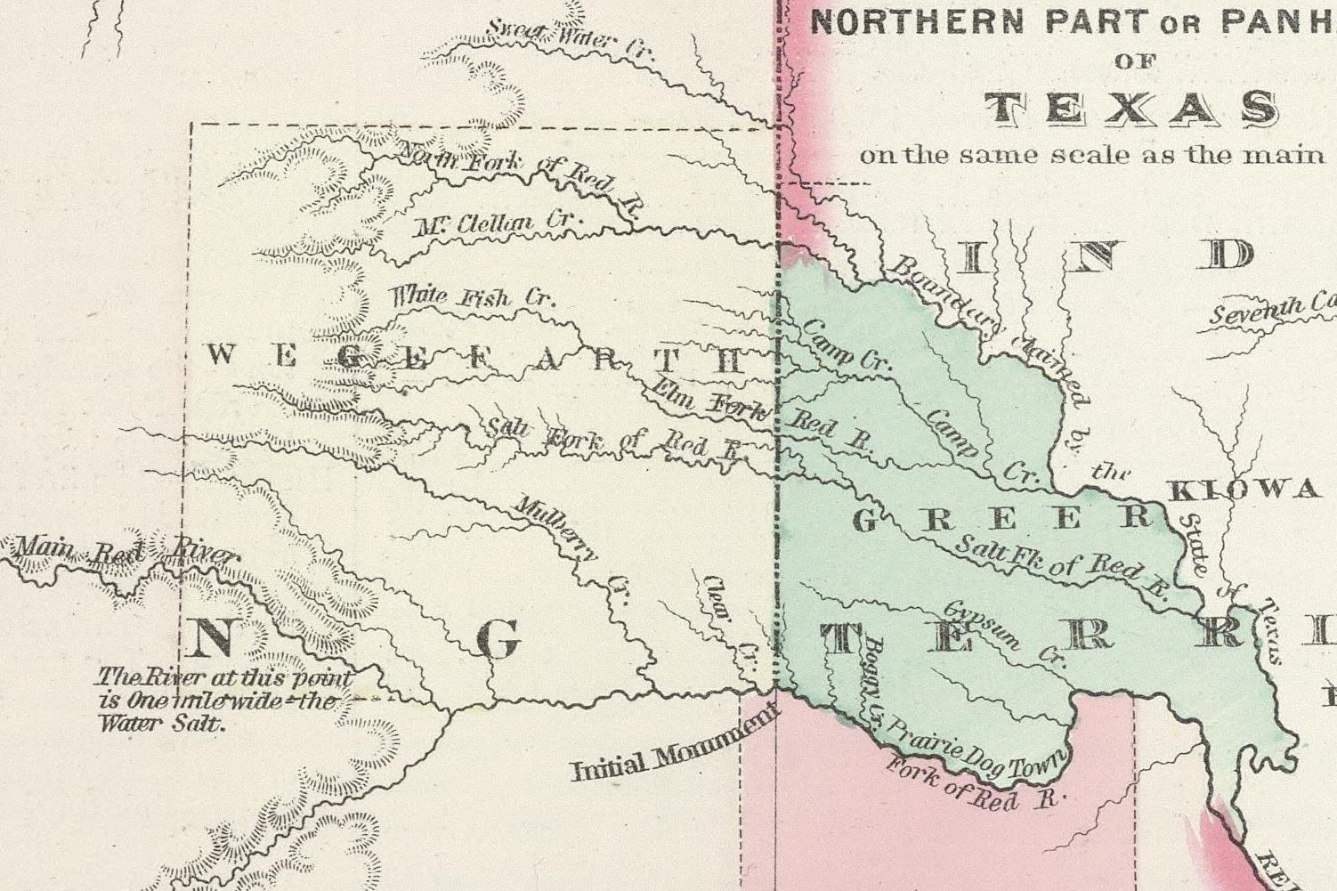 Map of Greer and Wegefarth counties along the border between Texas and Indian Territory in 1874. The counties were part of a border dispute between Texas and the U.S. Government.